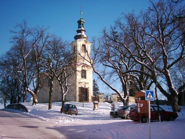 Church of St James the Great in Tachlovice